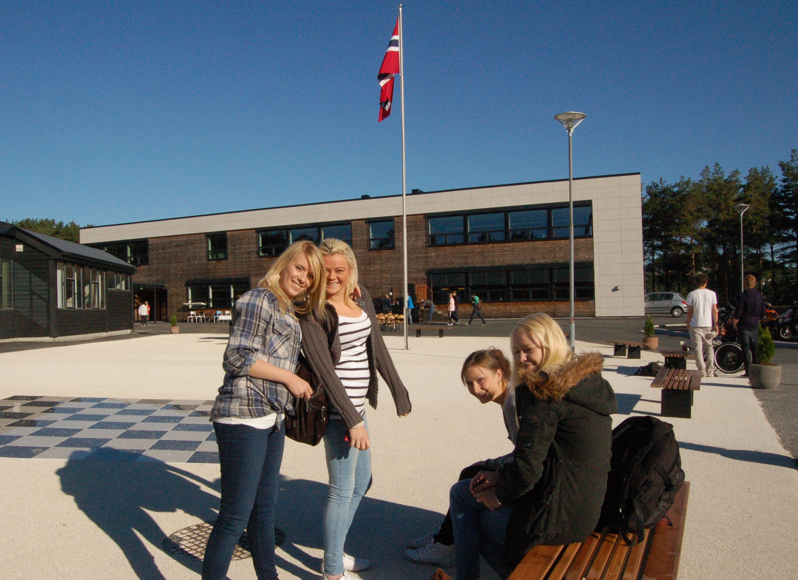 Kvinnherad vidaregåande skule, 5460 Husnes, Norway.